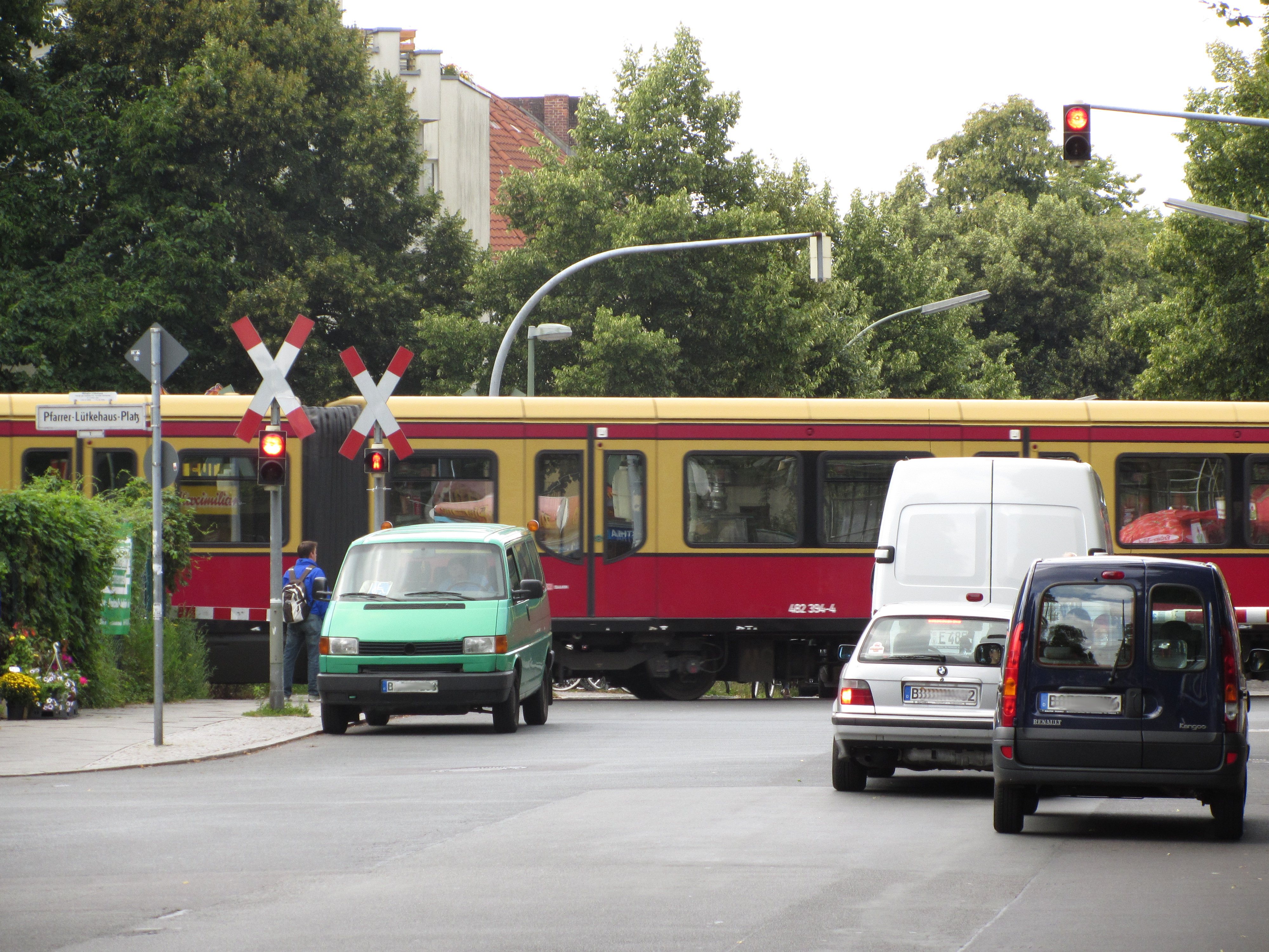 Level crossing with Berlin S-Bahn (powered by third rail!) in Berlin-Lichtenrade, at the southern entry to the S-Bahn station Berlin-Lichtenrade. Seen from Bahnhofstraße in direction west